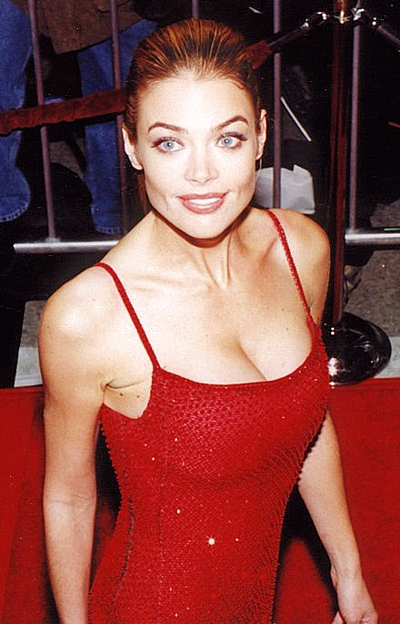 Denise Richards at the movie premiere of The World is not Enough in Westwood, Los Angeles